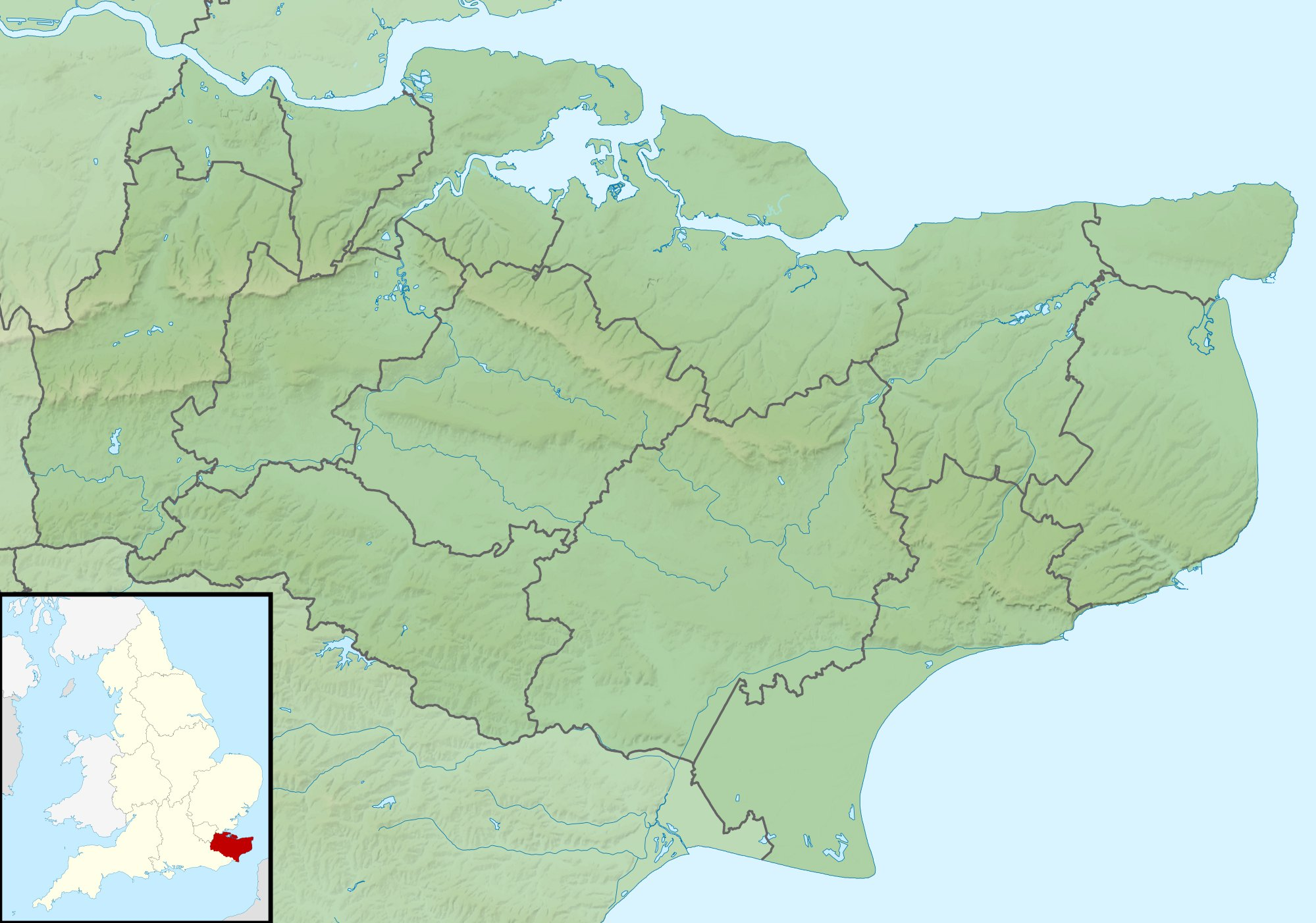 Relief map of Kent, UK. Equirectangular map projection on WGS 84 datum, with N/S stretched 160% Geographic limits: West: 0.01E East: 1.47E North: 51.52N South: 50.88N